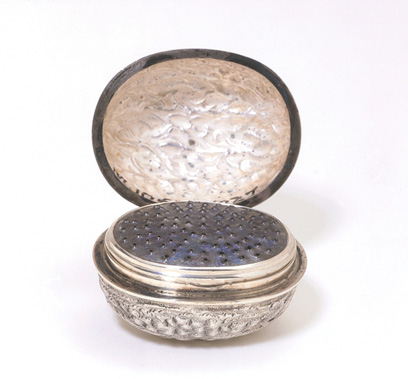 Nutmeg grater, England, 1800-25, Silver V&A Museum no. M.1065-1927